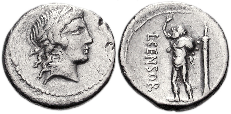 Denarius issued by L. Marcius Censorinus, depicting the laureate head of Apollo and Marsyas holding a wineskin with statue-topped column to the right